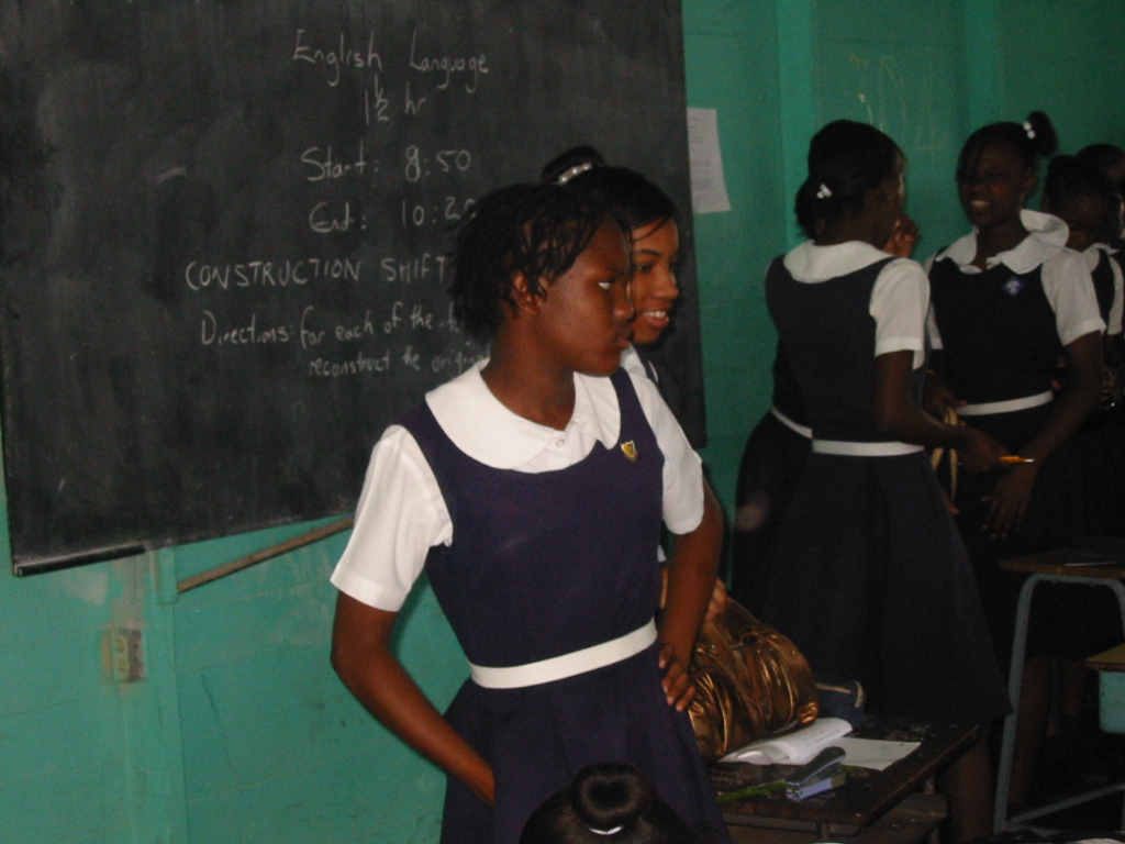 Jamaican teens in Kingston, Jamaica from the Convent of Mercy Academy High School "Alpha"